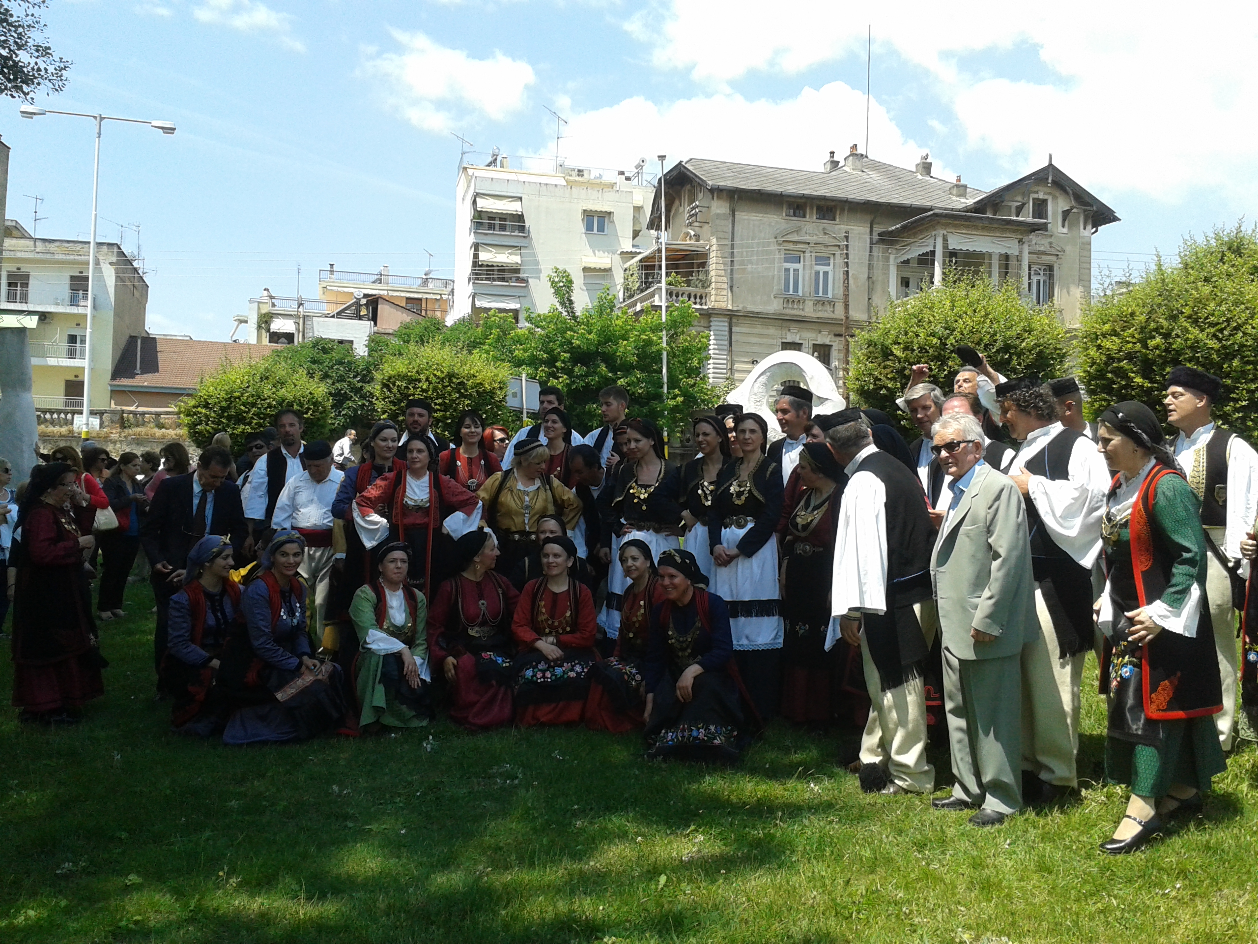 Tzimou Mansion in Drama